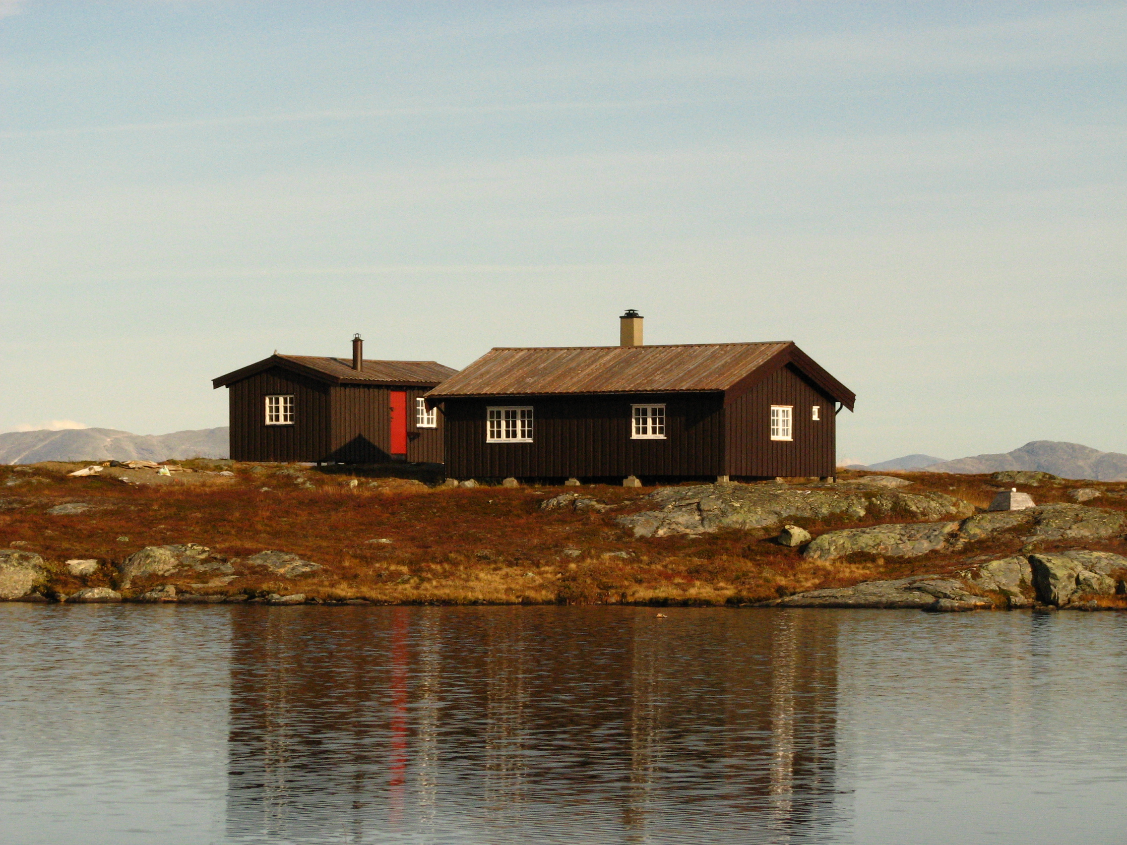 Kjølihytta in Sylan, Holtålen, Sør-Trøndelag, Norge